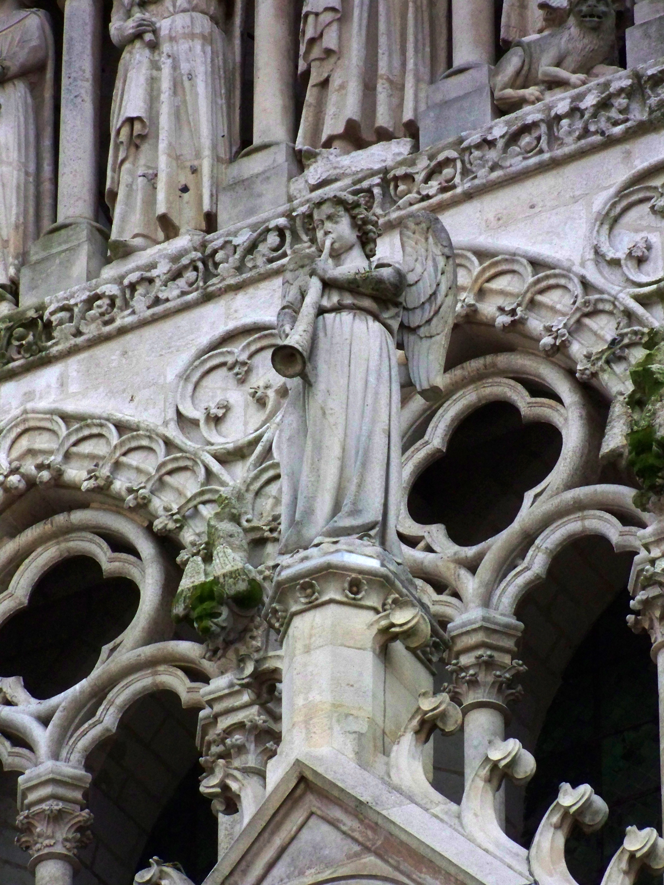 Angel on the top of the portal of the cathedral Notre-Dame in Amiens, France